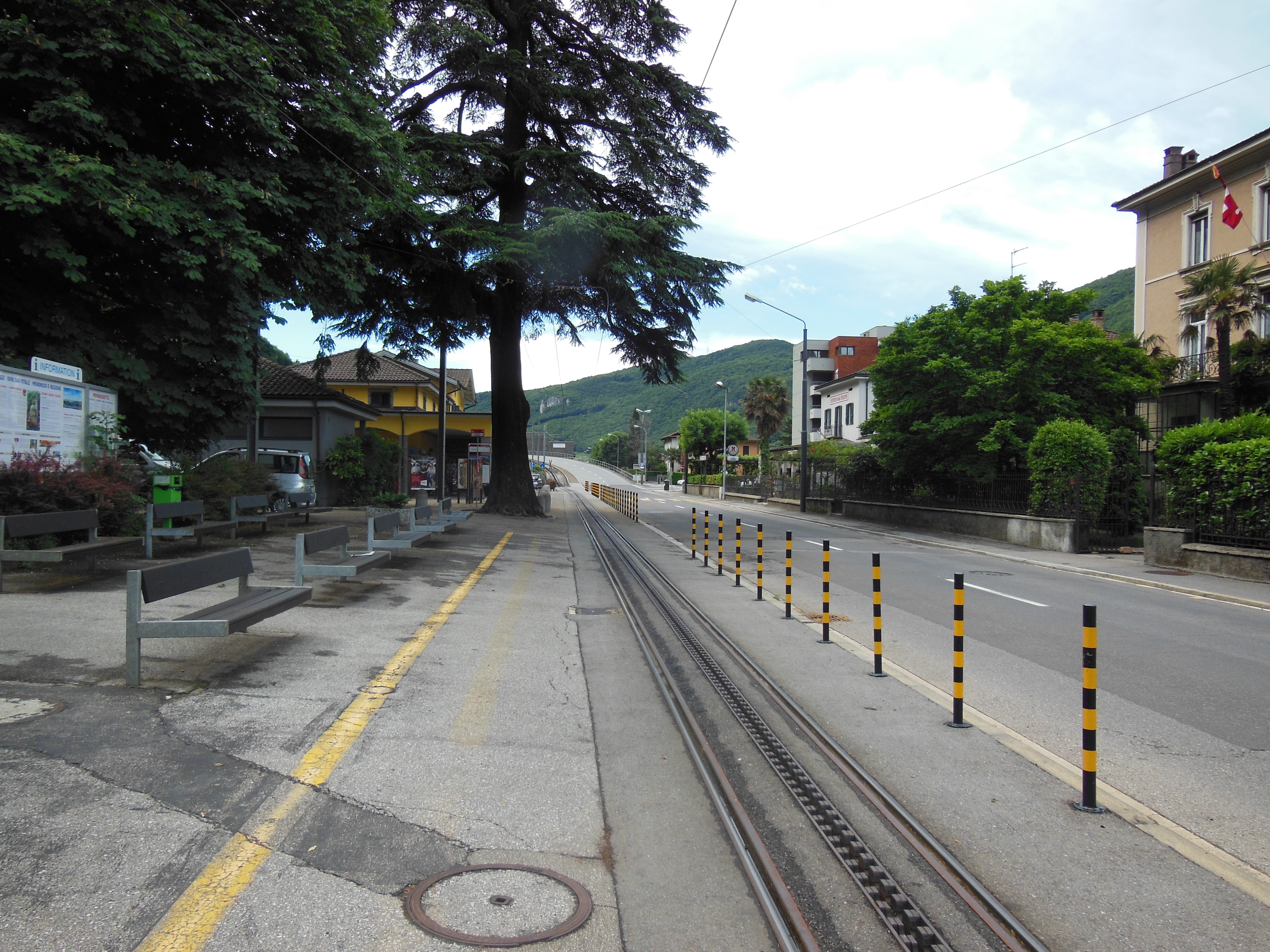 The main street of Capolago village, and the track of the Monte Generoso Railway (MGR), in front of Capolago-Riva San Vitale railway station (the yellow building). The mainline tracks and platforms are out of sight to the left. Beyond the station, the track of the MGR commences its climb by crossing the mainline on a bridge shared with the road. Behind the camera, the track continues to the MGR's depot, workshop and little used lakeside station at Capolago Lago, whilst the road turns west towards Riva San Vitale village. For more information, see Wikipedia articles Capolago, Capolago-Riva San Vitale railway station and Monte Generoso Railway.